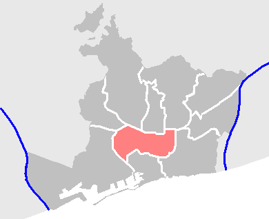 Locator maps of districts/ neighbourhoods in Barcelona: Map - Barcelona - Eixample.PNG